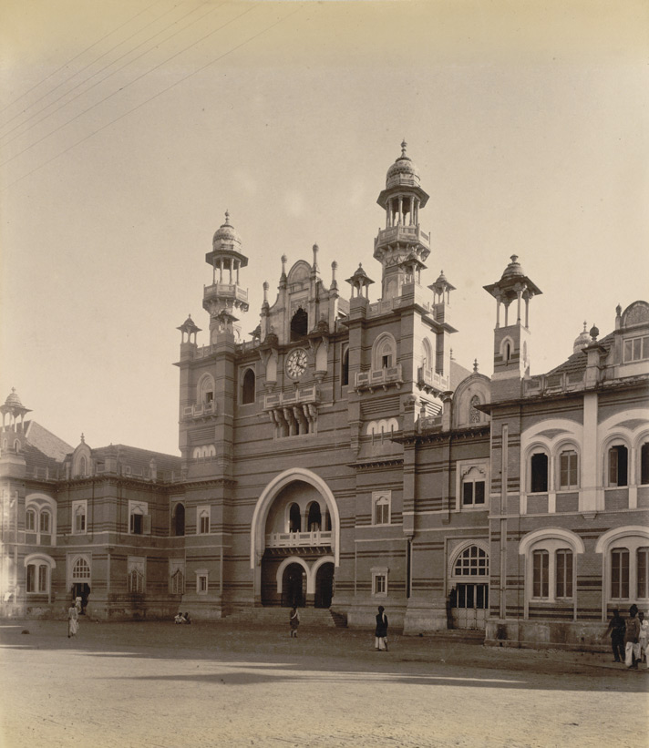 Photograph of the Chimnabai Nyaya Mandir or High Court at Baroda, Gujarat from the Curzon Collection, taken by an unknown photographer during the 1890s. Completed in 1896, it is situated beside the Sursagar tank in the centre of Baroda. It is one of several buildings in the city designed in an Indo-Saracenic style by the Madras architect Robert Fellowes Chisholm (1840-1915) and is a mixture of Gothic, Renaissance and Mughal elements. In the centre of the building is a large hall decorated with mosaic work, used as the Town Hall. It contains a statue of Maharani Chimnabai, the first consort of the Gaekwar Maharaja Sayaji Rao III (ruled 1875-1939), after whom the building was named. This is a view of the front entrance and clocktower, ornamented with chhatris.